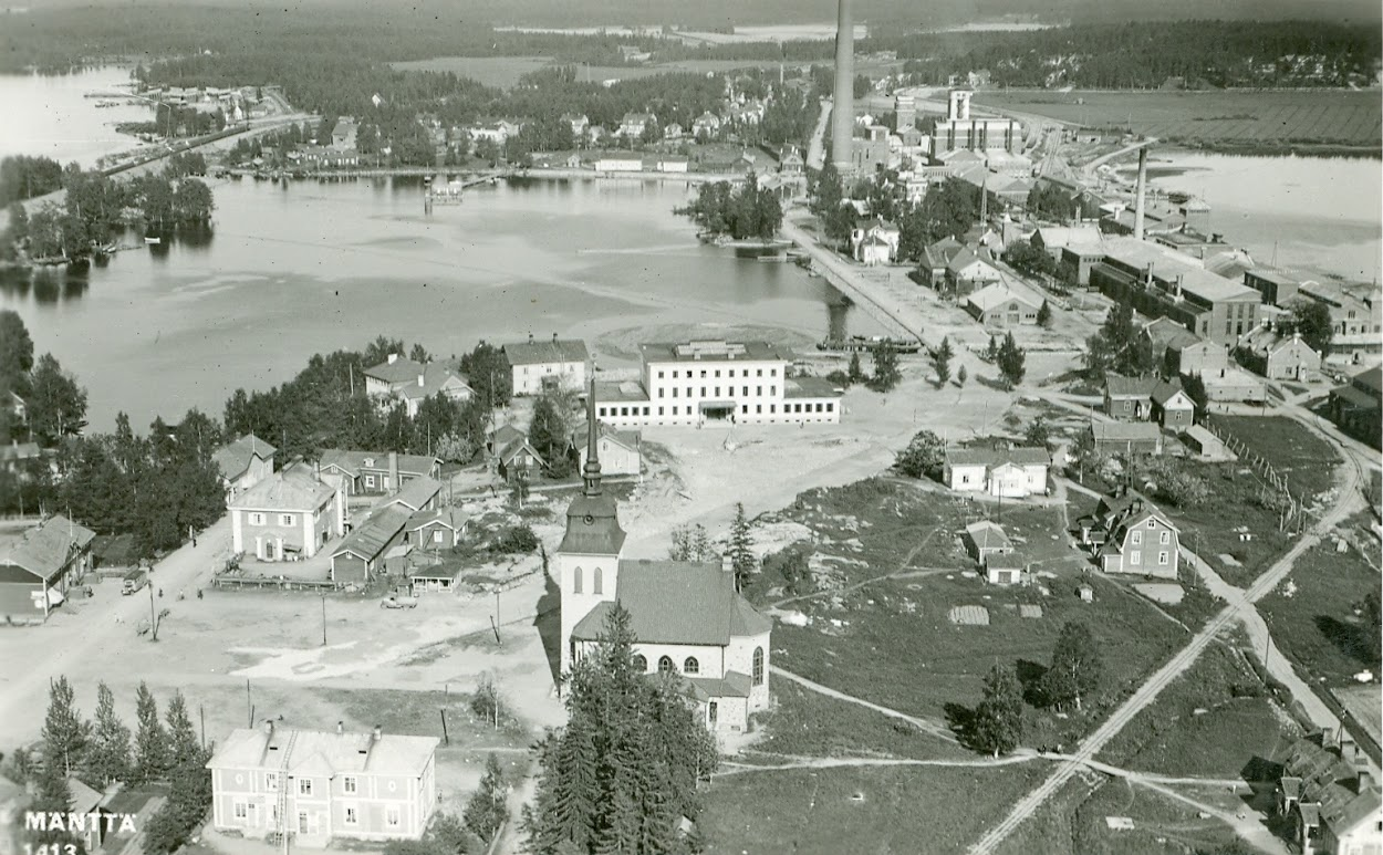 Mänttä, Finland from air